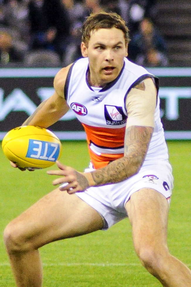 Nathan Wilson during the AFL round twelve match between Carlton and Greater Western Sydney on 11 June 2017 at Etihad Stadium in Melbourne, Victoria.